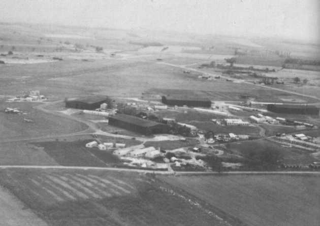 RAF Tempsford airfield as seen from the air, 1943